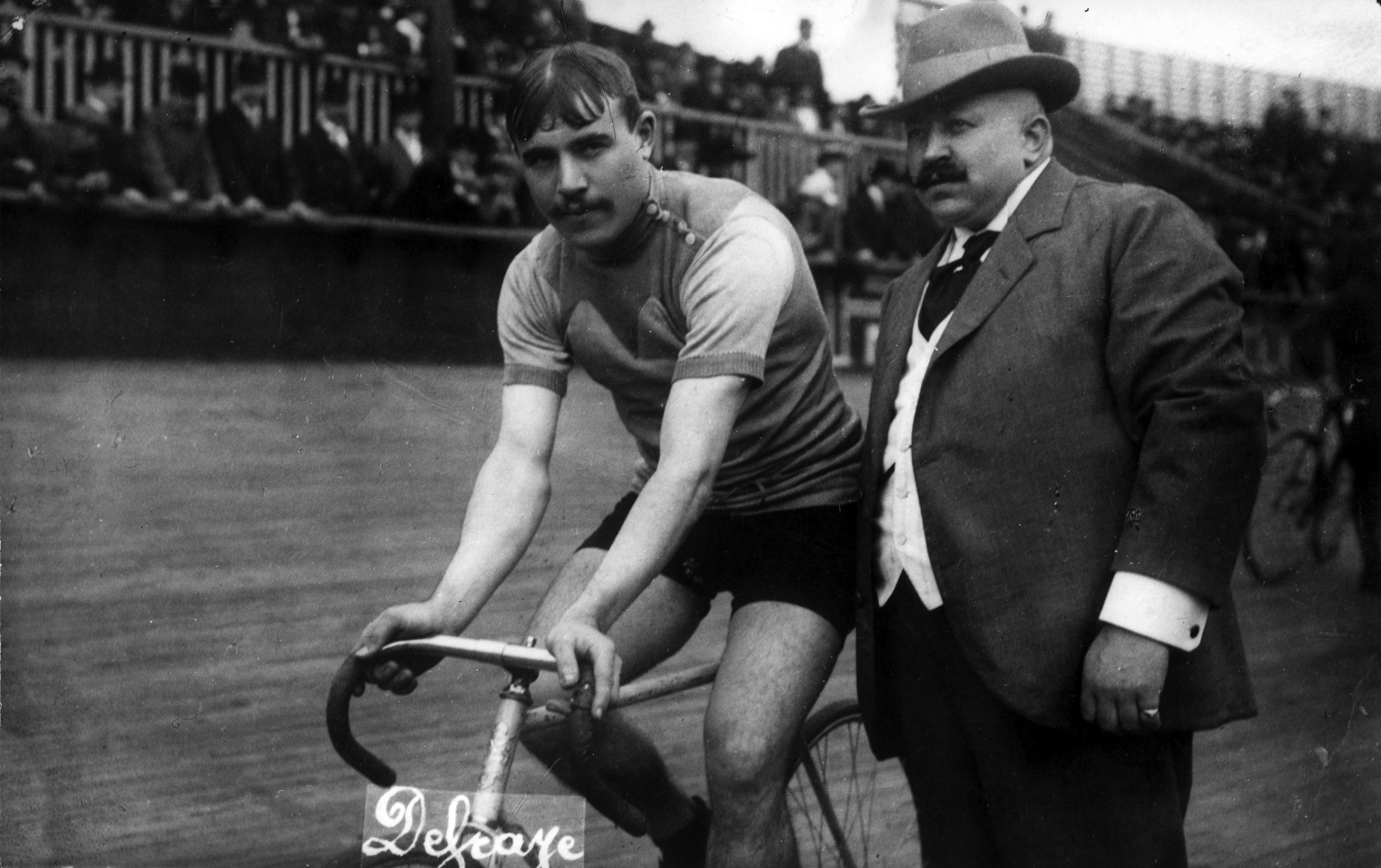 Famous Belgian racing cyclist Odile Defraye (real name: 'Odiel Defraeye'), winner of the Tour de France (1912) and Milan-San Remo (1913) among others, on a racing track, place and date unknown.